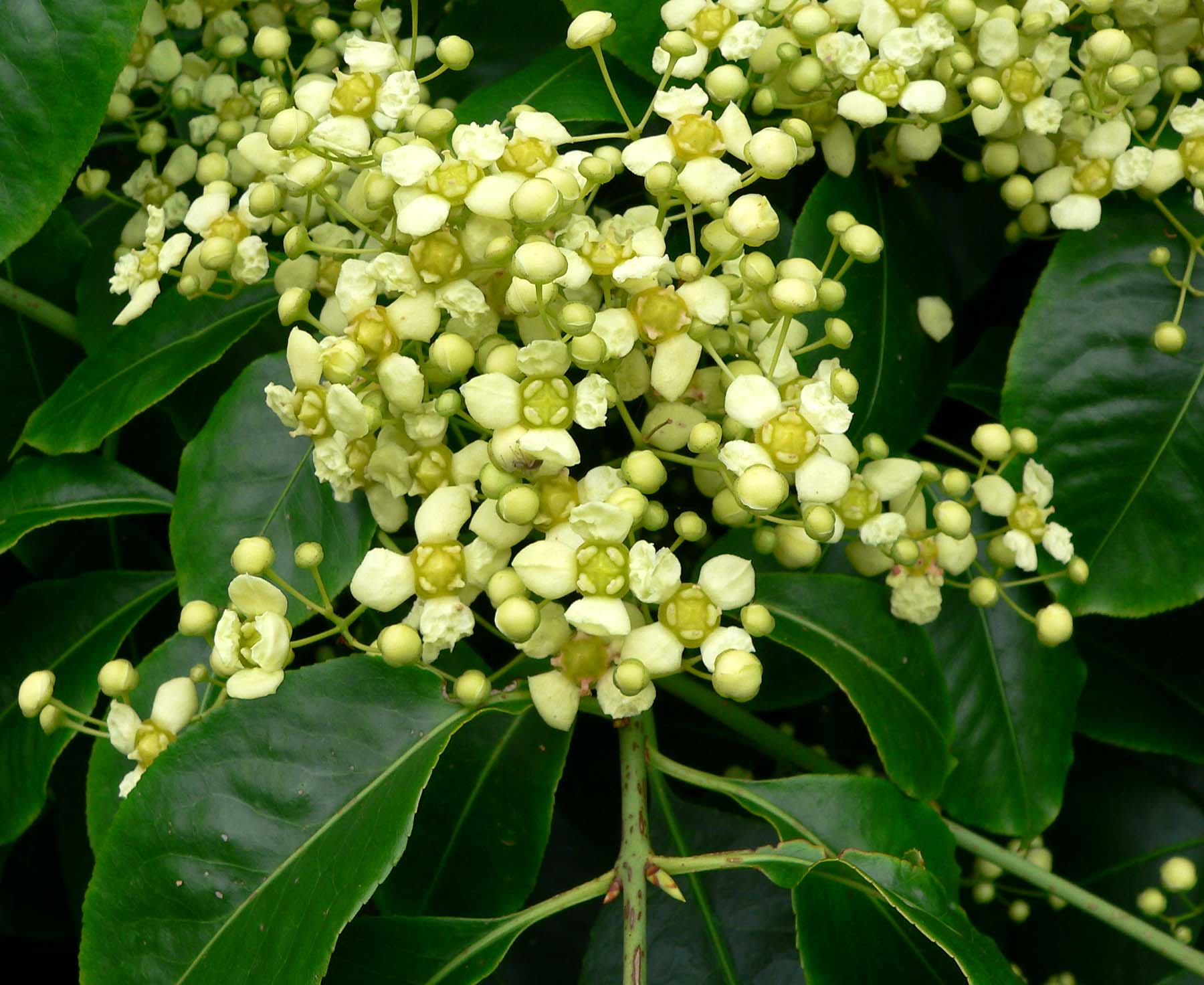 Photo of Euonymus carnosus at the UBC Botanical Garden in Vancouver